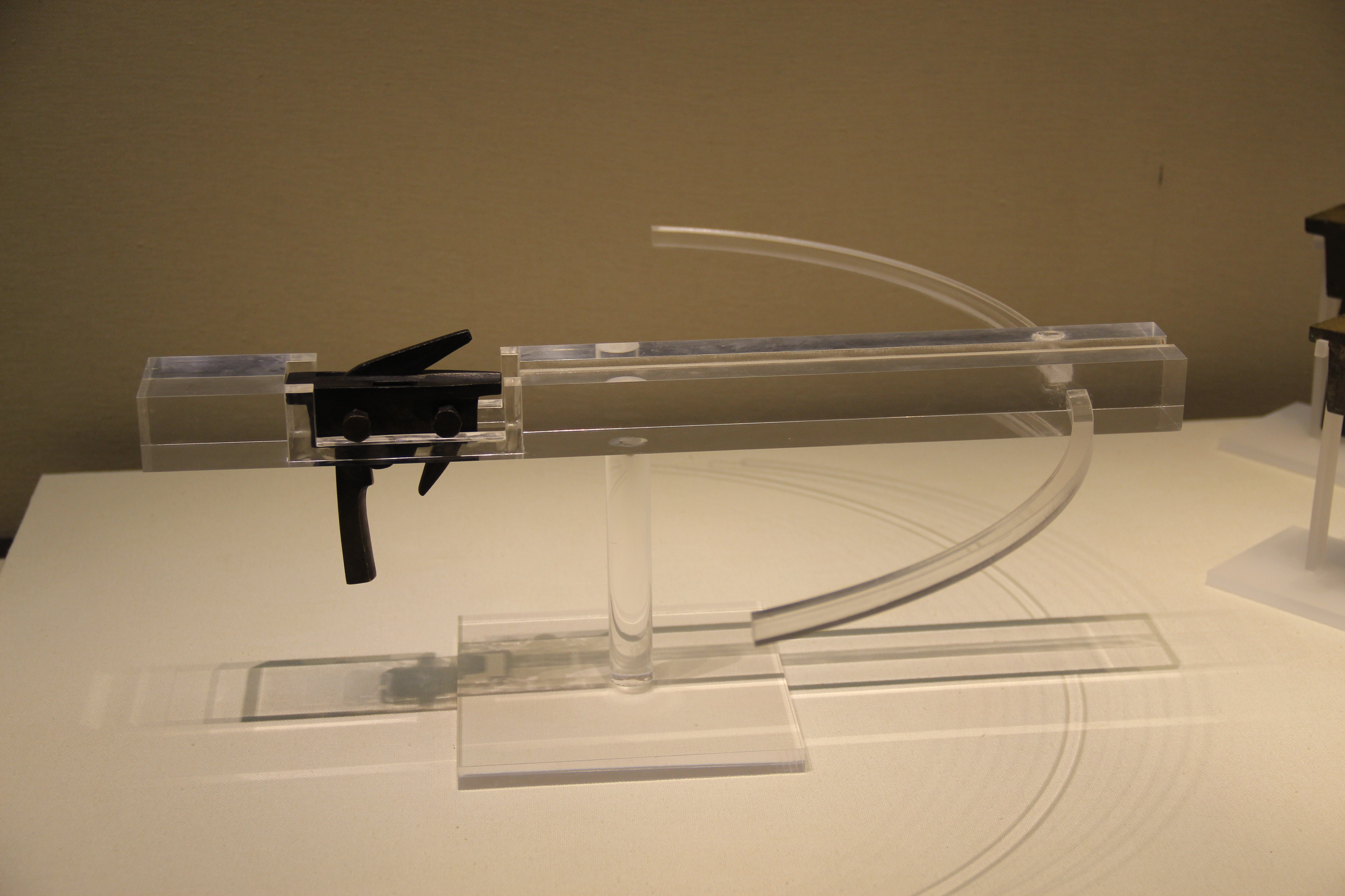 Han crossbow triggers